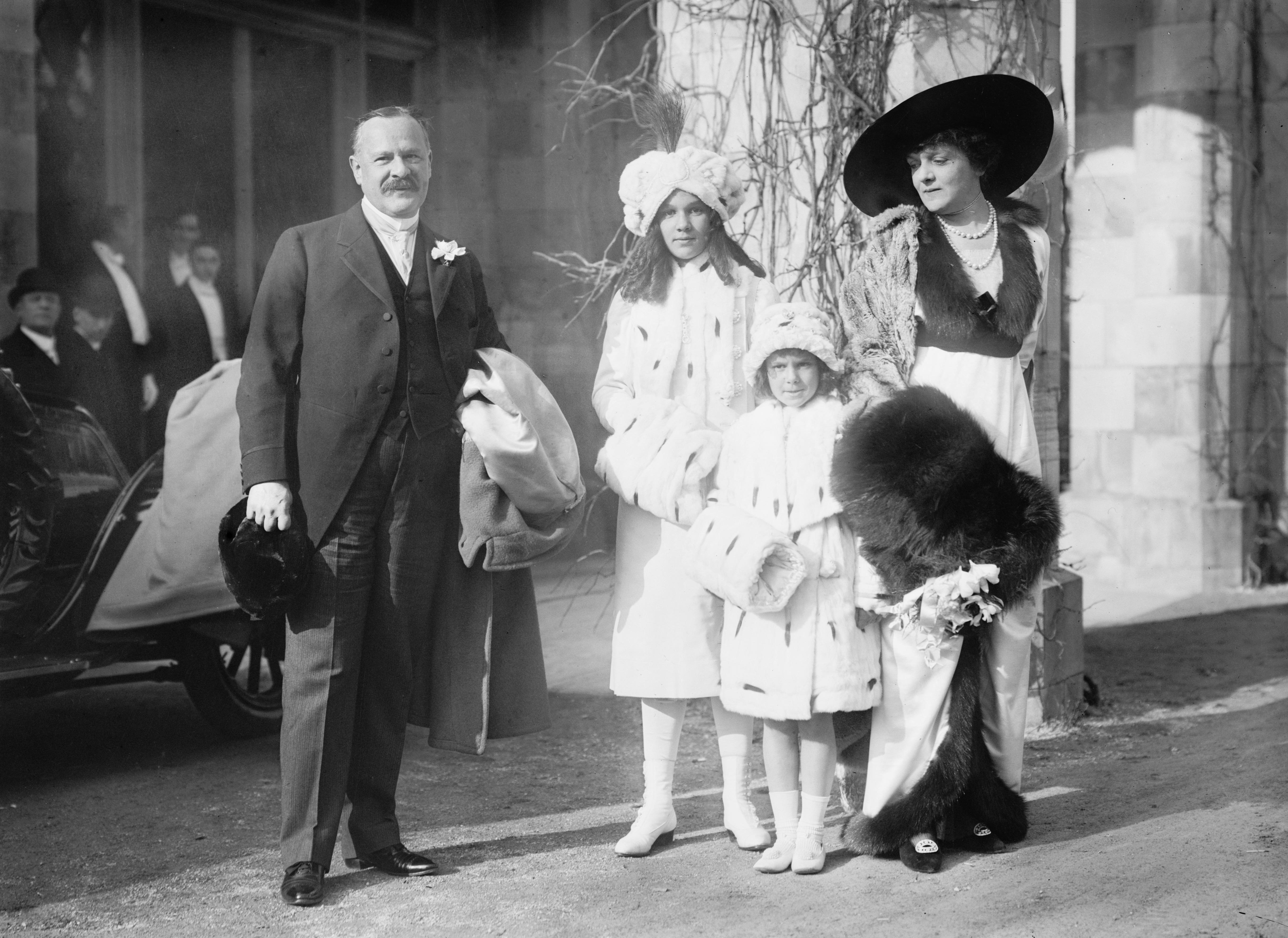 George Jay Gould (1864–1923) and Edith M. Kingdon (1864–1921) and family at the January 22, 1913 wedding of Helen Miller Gould (1868-1938) to Finley Johnson Shepard Bain News Service,, publisher. Geo. Gould and family at Helen's wedding [no date recorded on caption card] 1 negative : glass ; 5 x 7 in. or smaller. Notes: Title from unverified data provided by the Bain News Service on the negatives or caption cards. Forms part of: George Grantham Bain Collection (Library of Congress). Format: Glass negatives. Repository: Library of Congress, Prints and Photographs Division, Washington, D.C. 20540 USA, General information about the Bain Collection is available at Persistent URL: Call Number: LC-B2- 2624-10